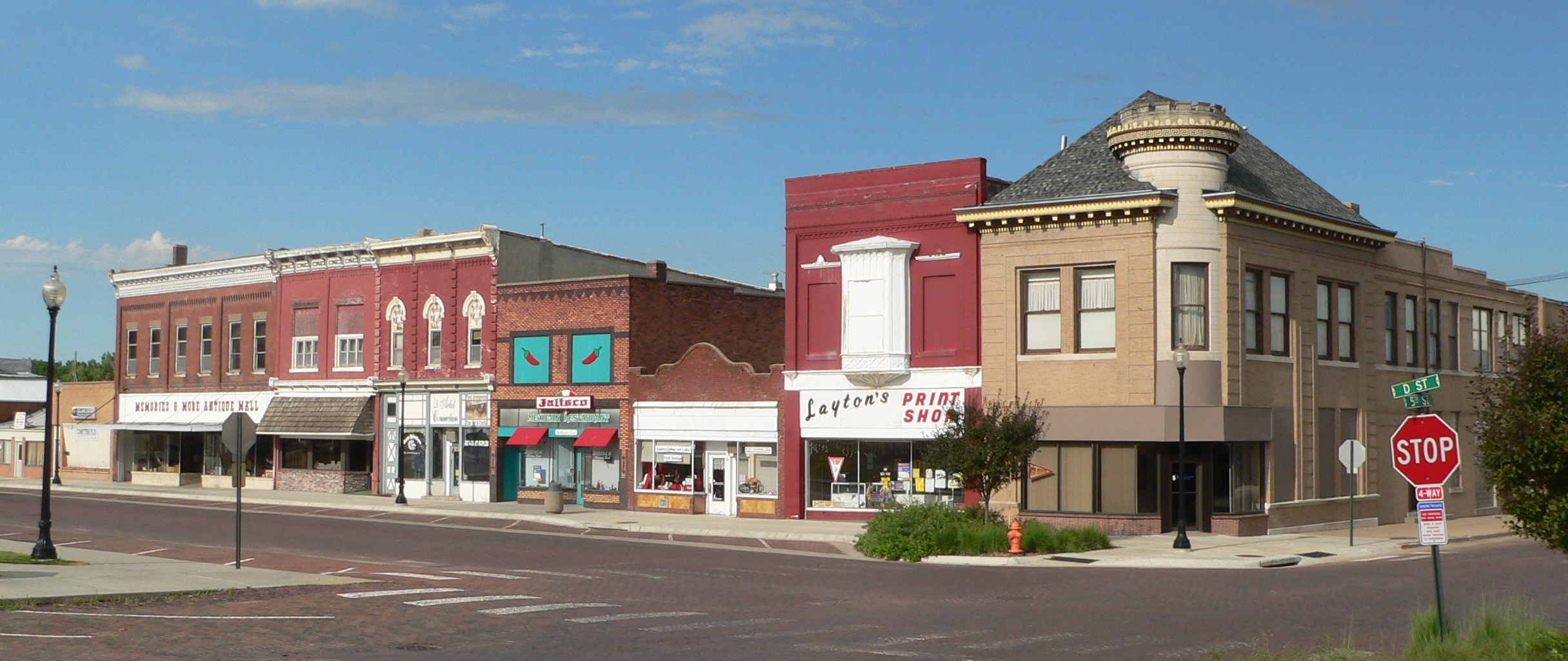 Downtown Fairbury, Nebraska: west side of D Street, looking southwest from about 5th and D.